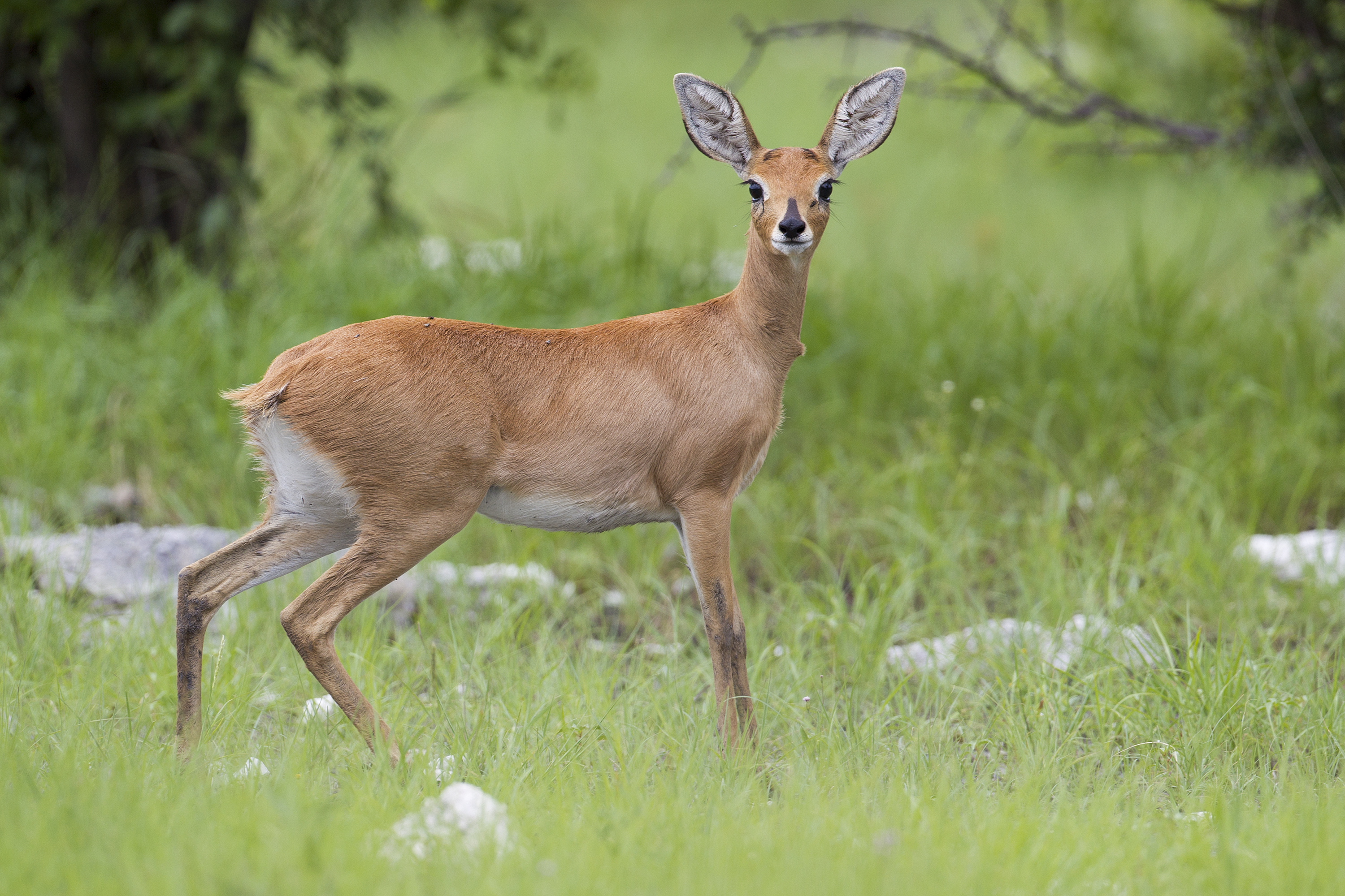 Steenbok female in Etosha National Park